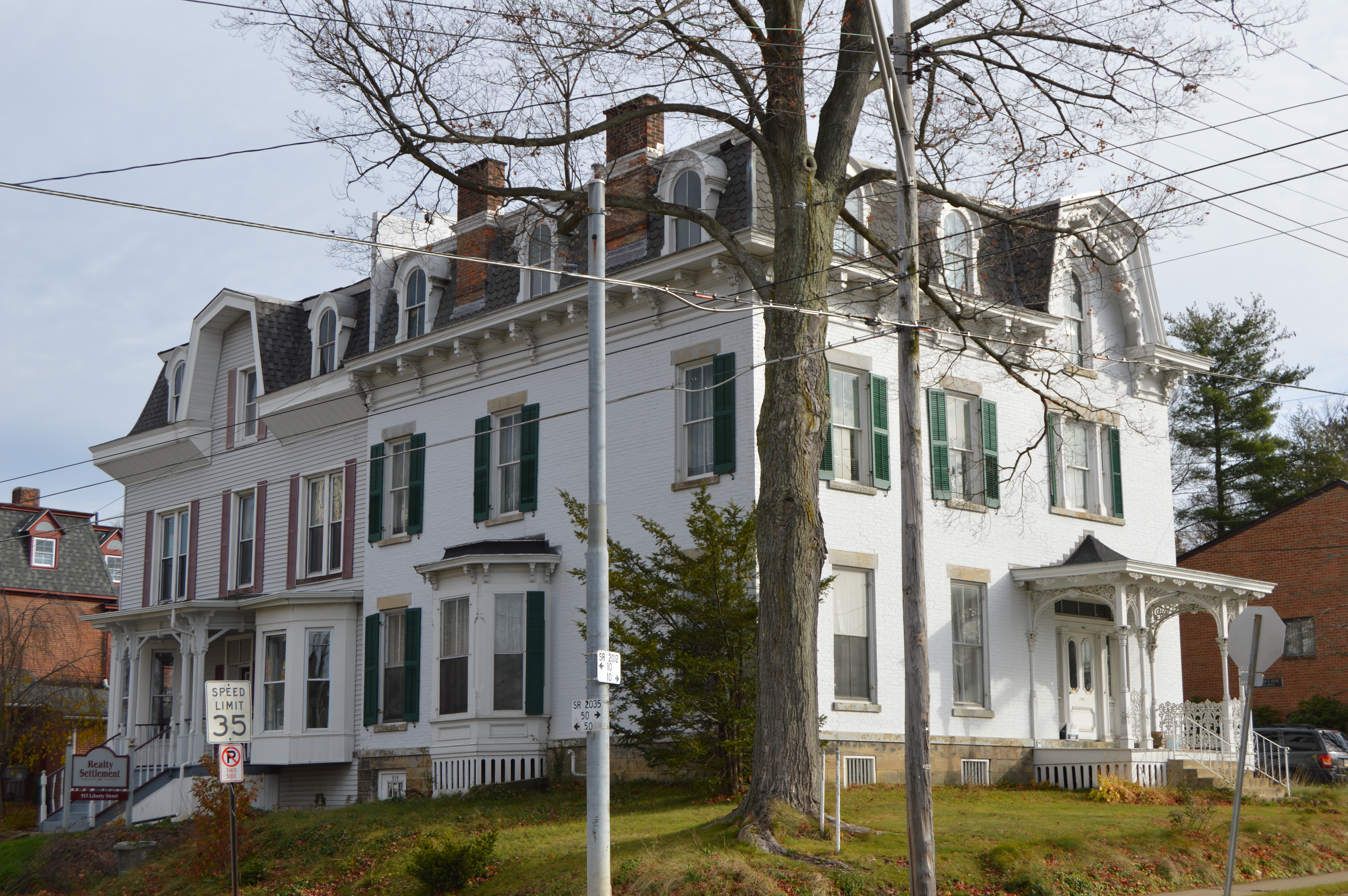 Western side and front of the Judge Henry Shippen House, located at 403 Chestnut Street in Meadville, Pennsylvania, United States. Built in 1838 and later heavily modified, it is listed on the National Register of Historic Places.